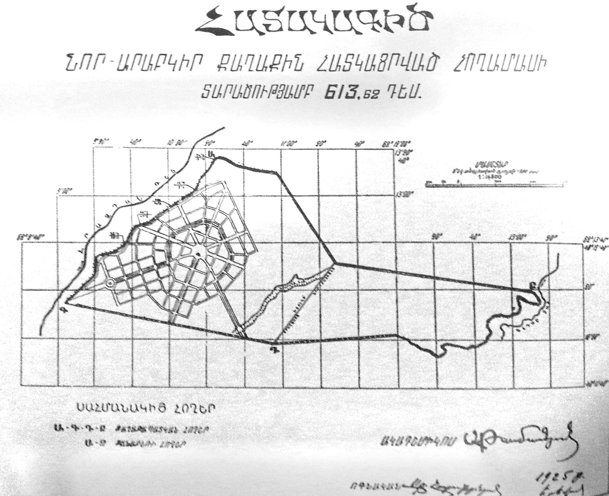 Arabkir general plan by Aleksander Tamanyan, 1925